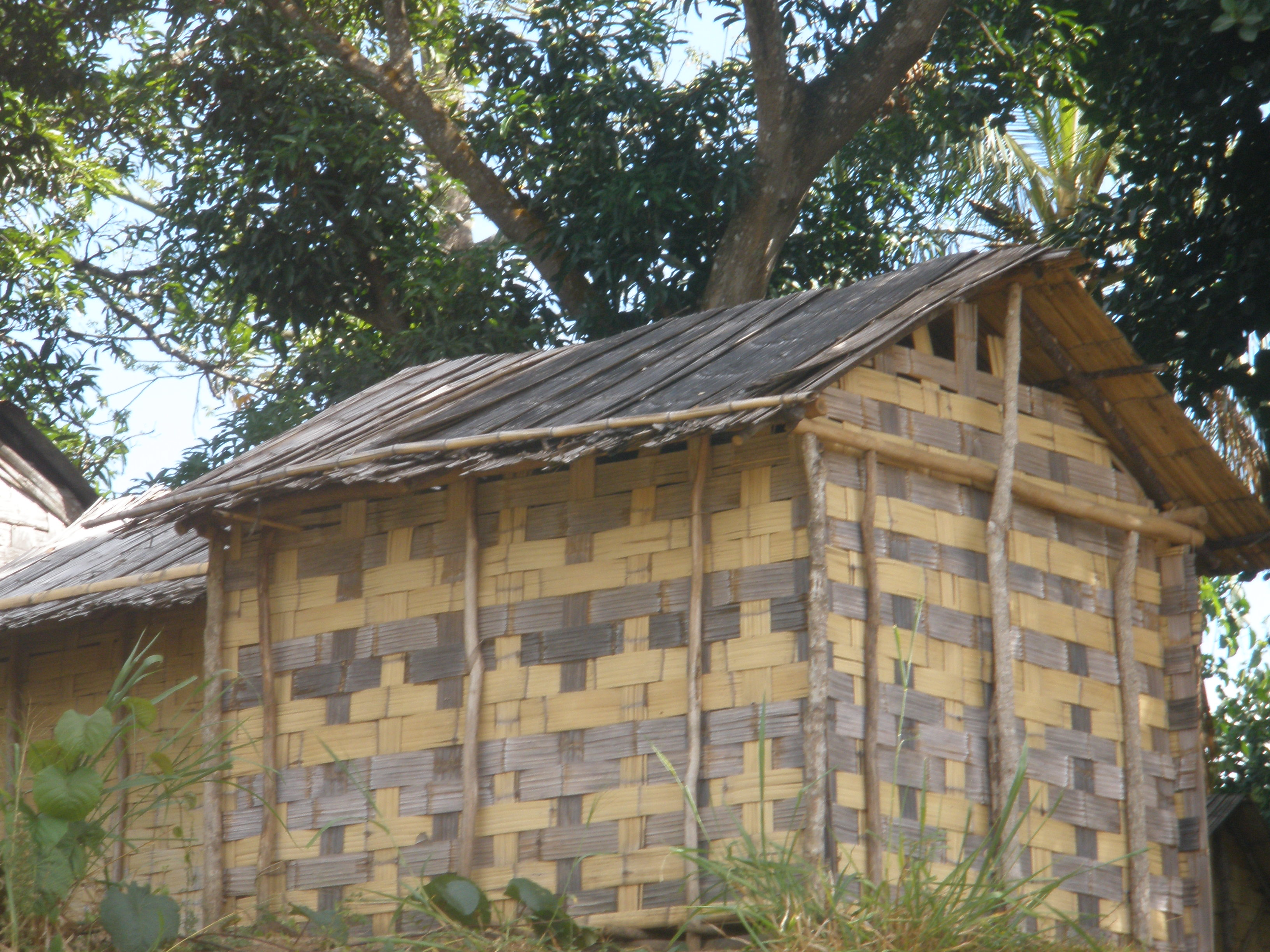 House made of woven pounded bamboo in Sambava, Madagascar